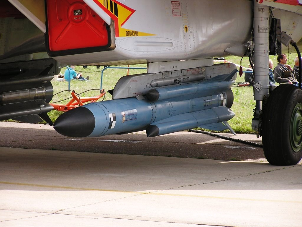 Russian Kh-31-missile (NATO-code: AS-17 Krypton) attached to the left wing of a russian fighter aircraft, displayed at the MAKS Airshow 2003.